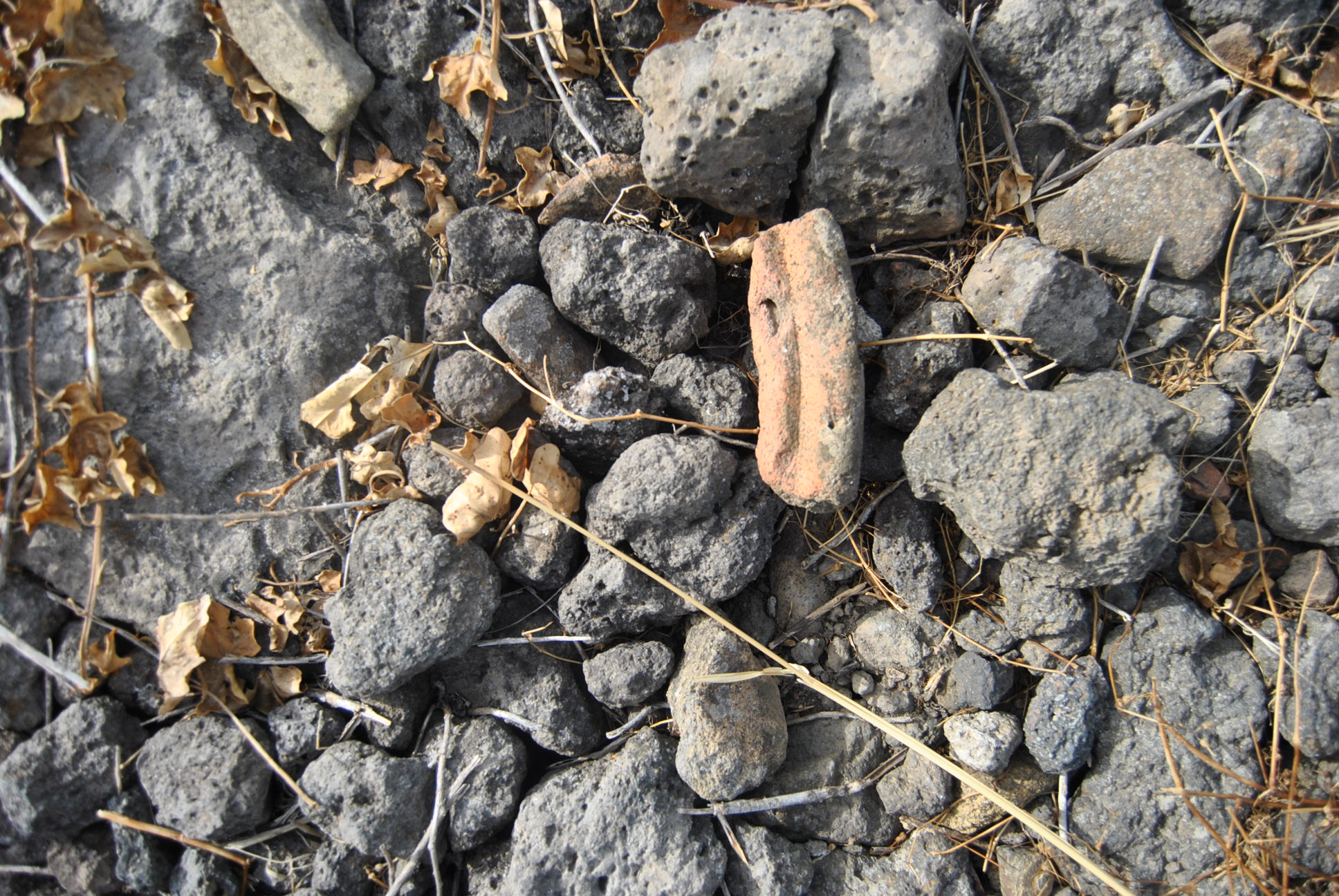 Mendolito di Adrano - frammenti ceramici